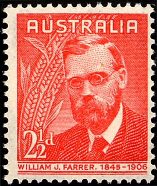 A postage stamp of Australia issued 1948